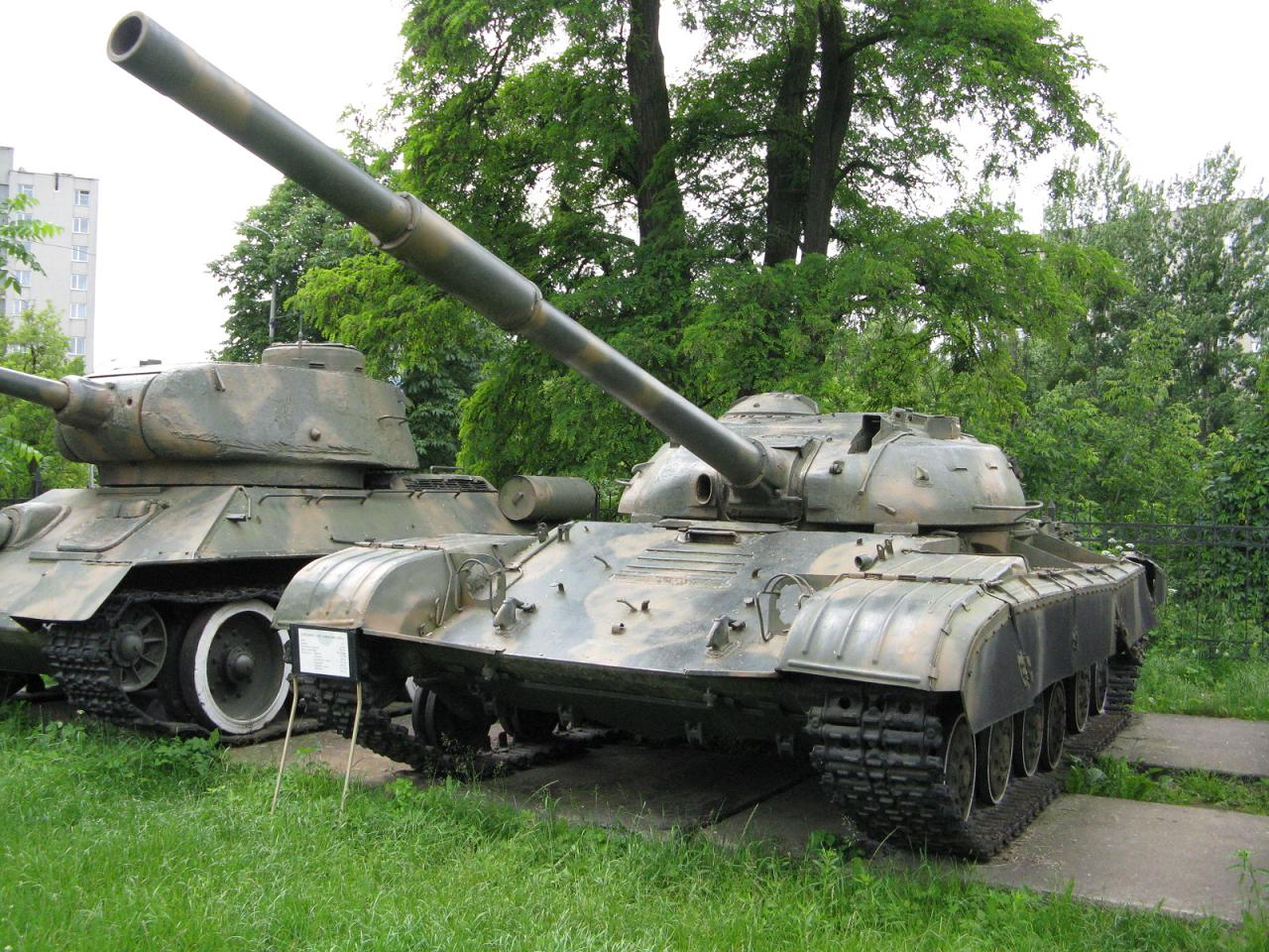 T-64, Lutsk, Volynskiy regional museum of Ukrainian army